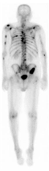 Osseous mets from prostate cancer; bone scan